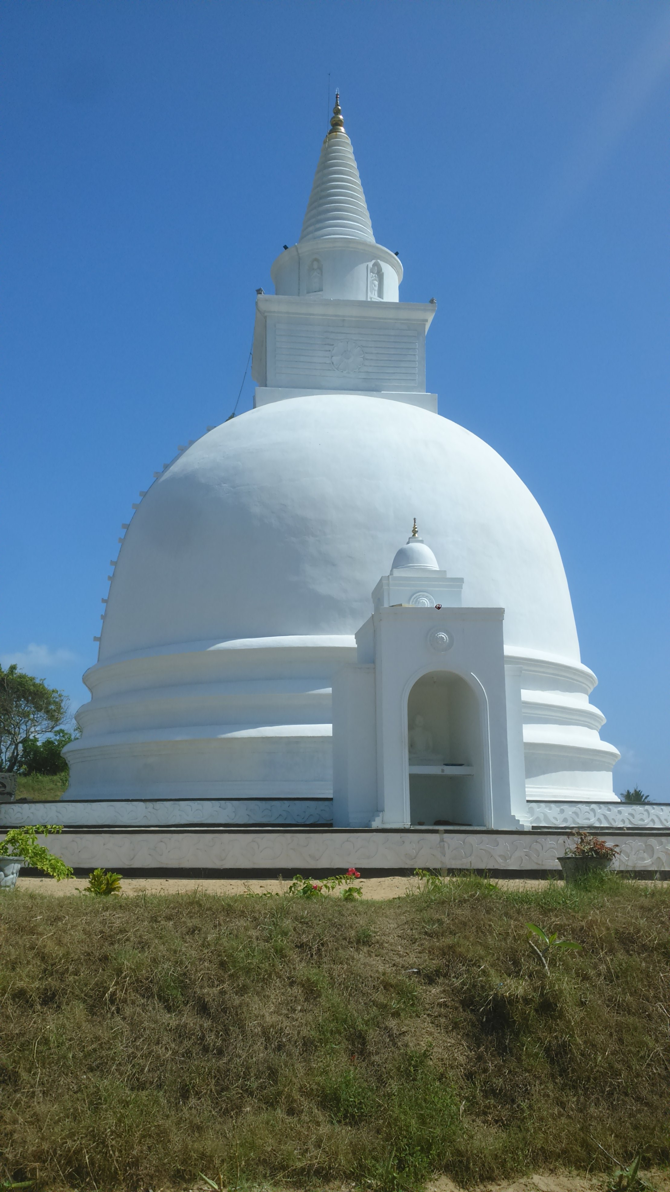 Stupa at Muhudu Maha Vihara, Pothuvil, Sri Lanka